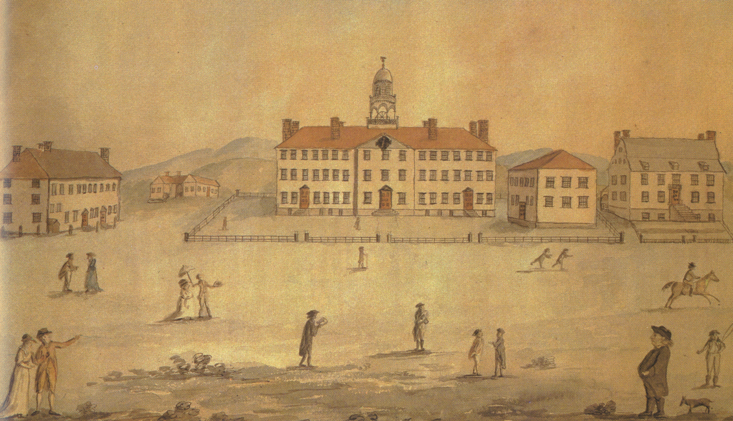 Scanned copy of a painting (is it a painting? Some sort of artwork) of The Green at Dartmouth College in Hanover, New Hampshire.